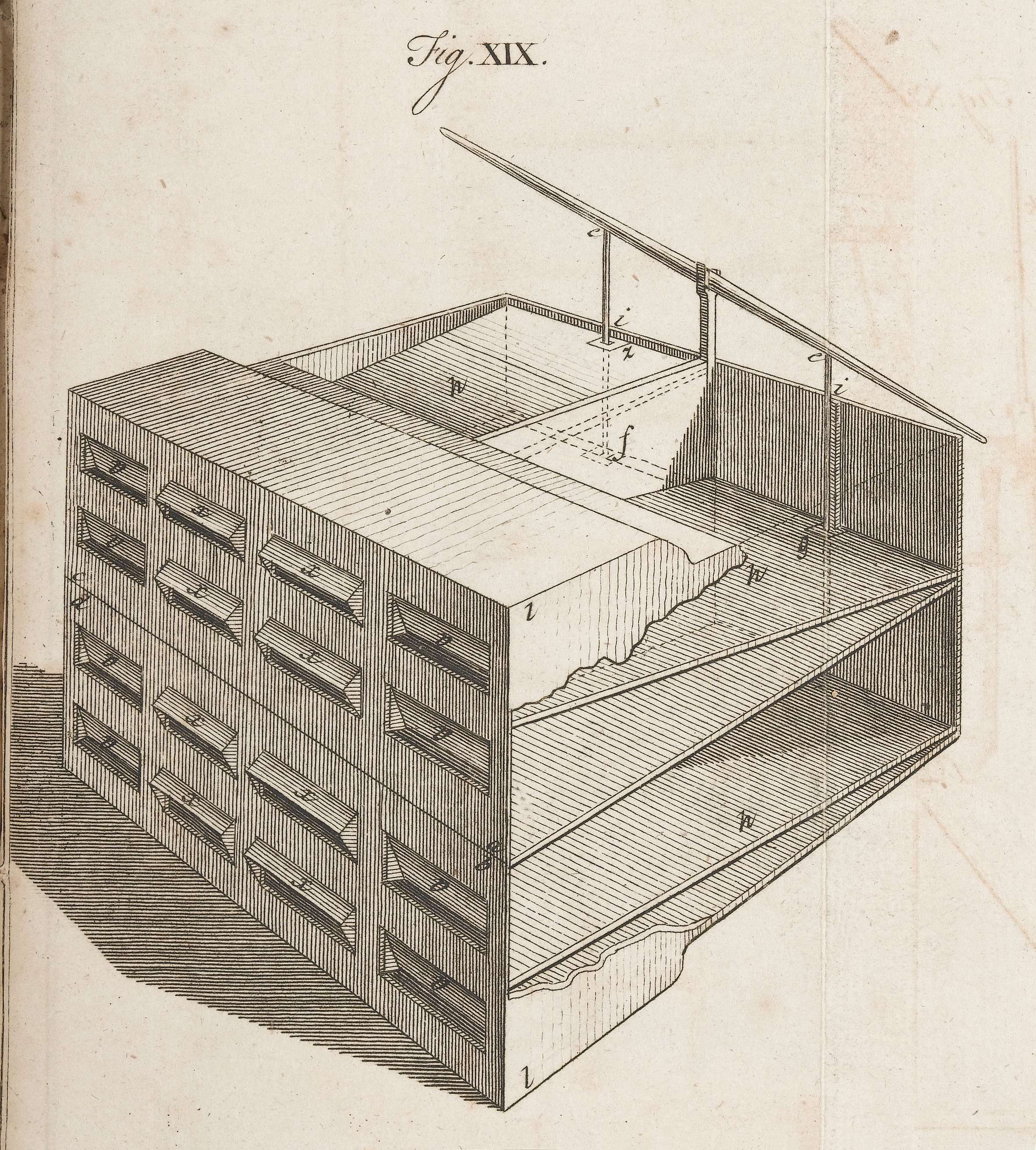 Image of ventilation bellows devised by Reverend Stephen Hales. Rare Books Keywords: ventilator; Ventilation; Bellows; Ventilators, Mechanical